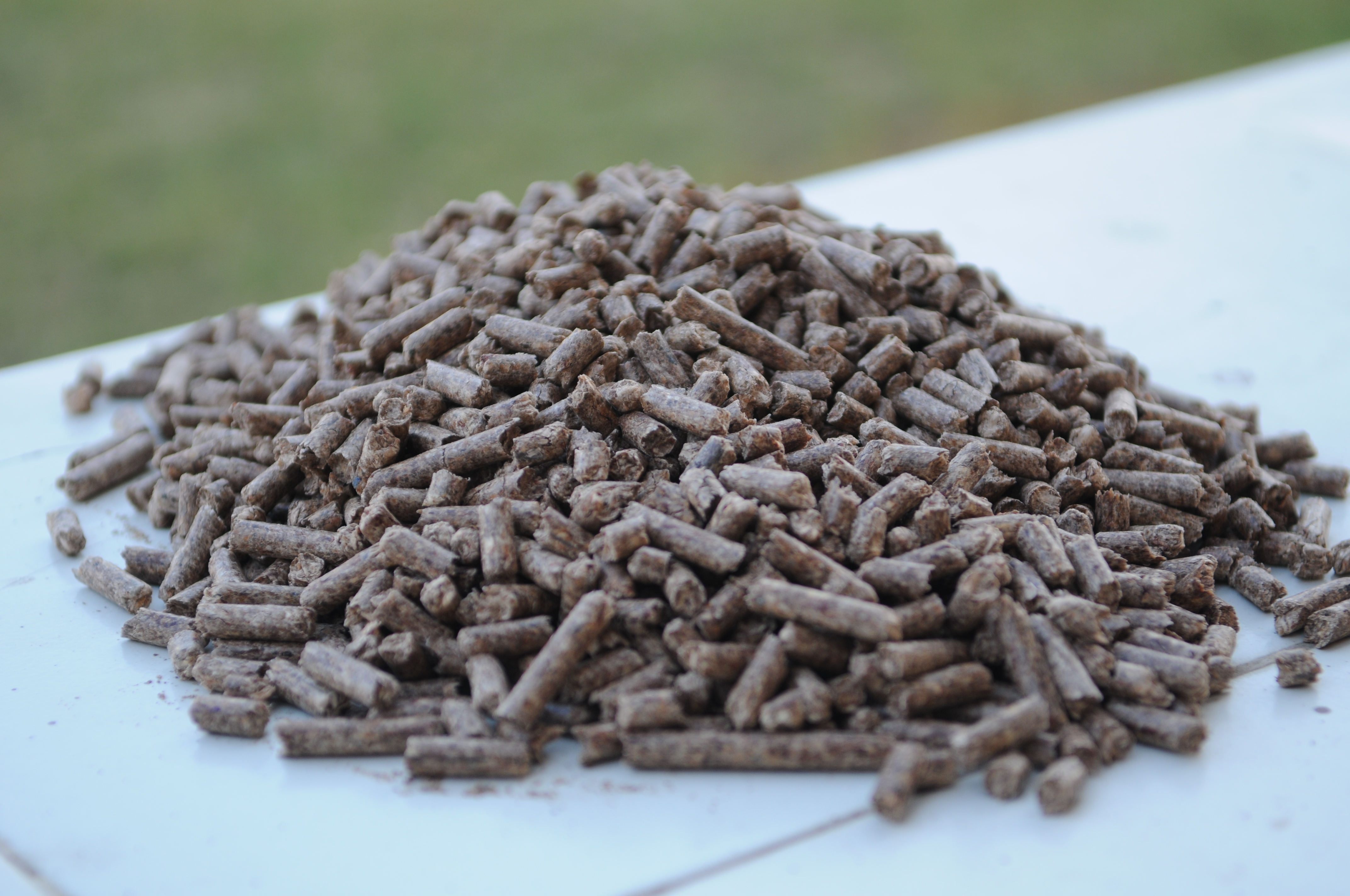 Abellon biomass pellet. Abellon is producing wood pellets in india. Abellon is marketing their pellets with pellexo brand name. Pellexo is carbon neutral fuel and environment friendly fuel for boiler and utilities. Pellet is clean alternative to coal, lignite and other fossile fuel which give industry environmental friendly solution. Pellexo GCV is 4300 kcal/kg, Moisture less than 10% and ash less than 5%. Pellexo is largest selling biomass pellet brand in India and used by many MNCS.